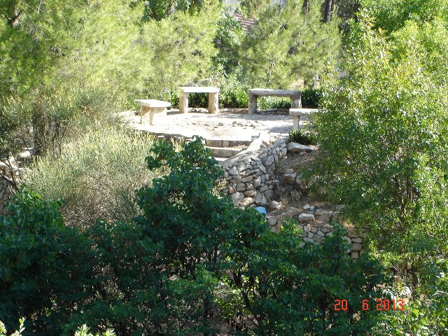 Safed Garden